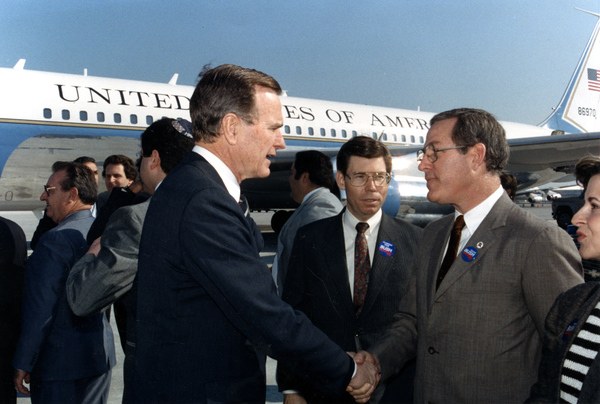 Secretary of State Jim Smith and Congressman Bill McCollum greeting Vice President George H. W. Bush.